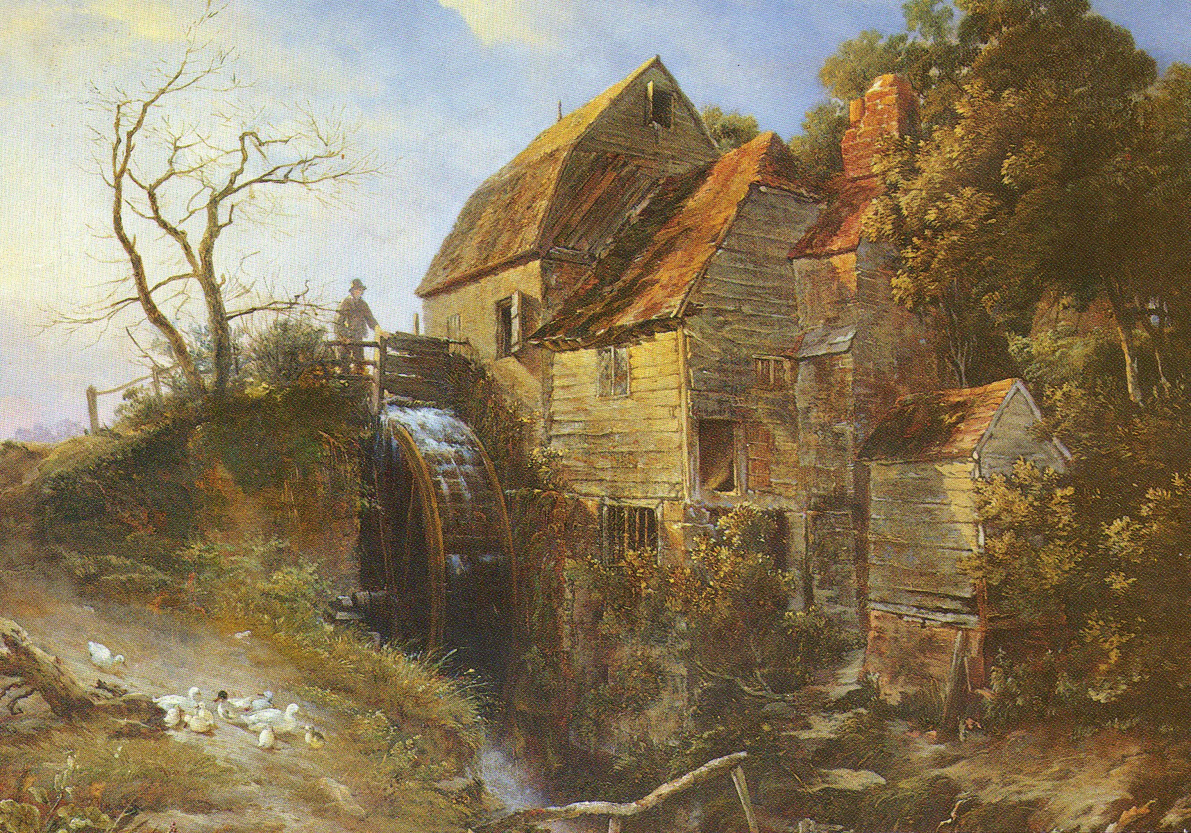 Standings Mill from an old painting. Reproduced as a postcard by Tunbridge Wells Museum and Art Gallery